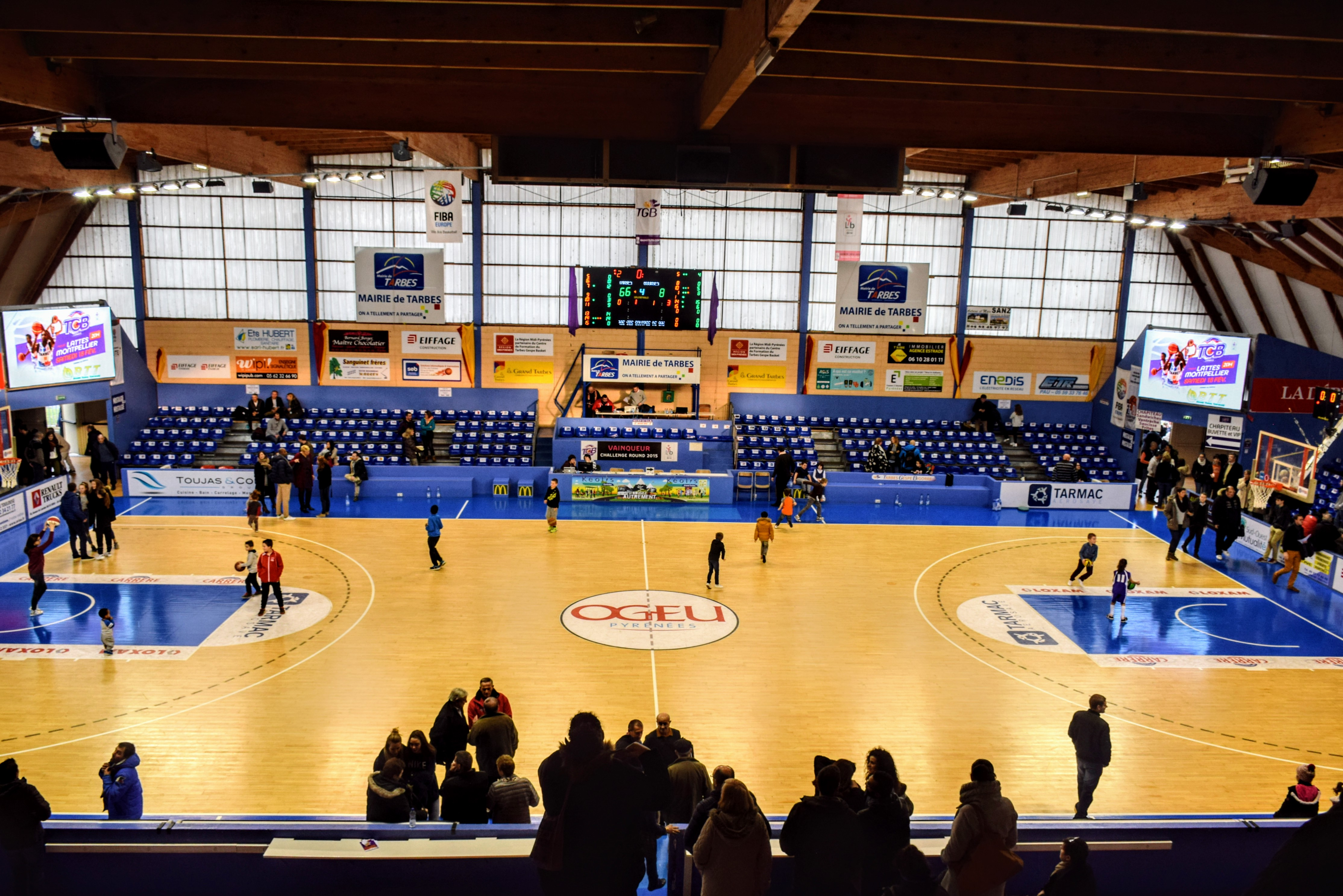 Indoor view of Palais des sports du quai de l’Adour in Tarbes.